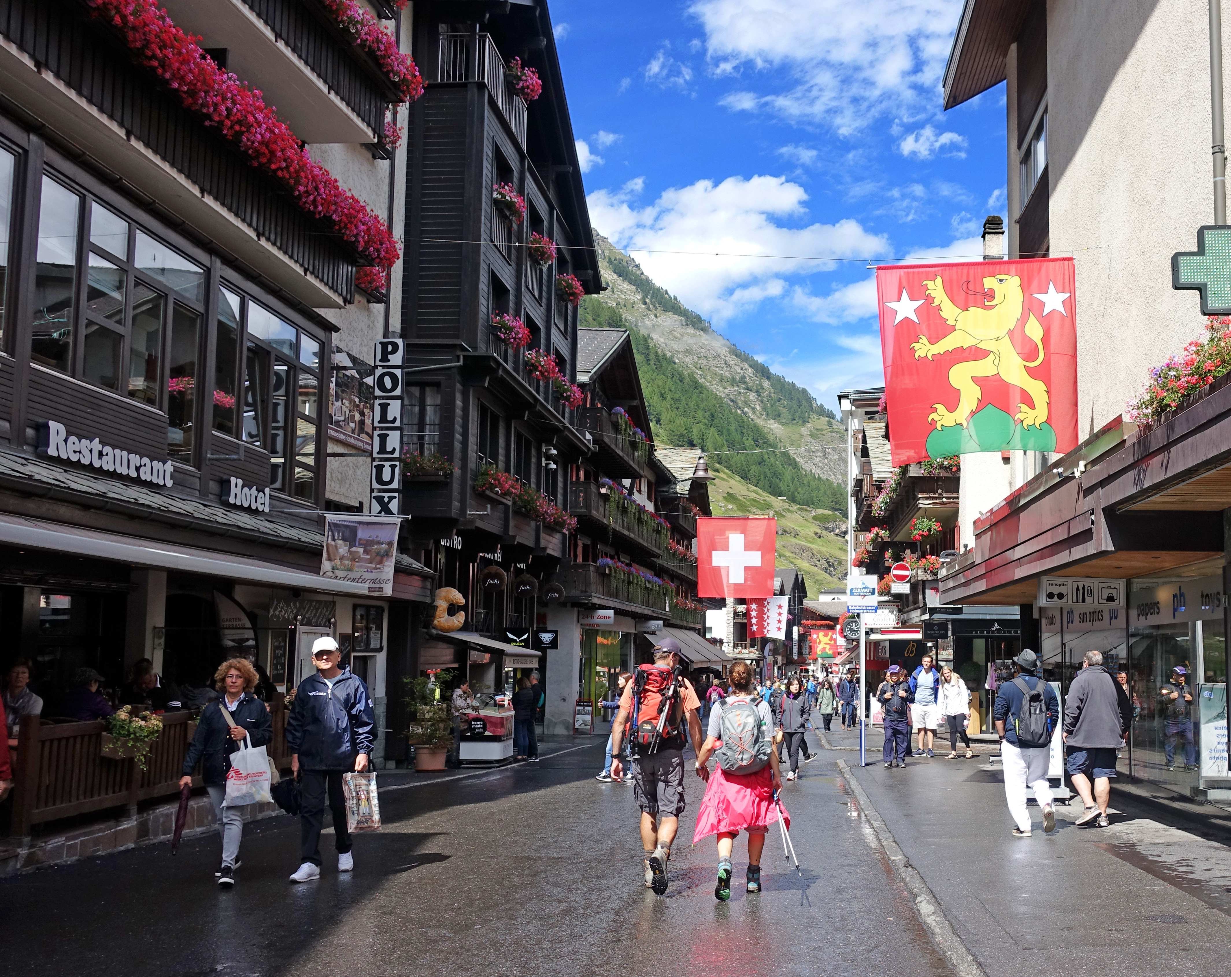 Bahnhofstrasse, Zermatt, Switzerland.